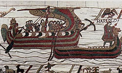 bayeux tapestry showing harold as he comes to normandy to inform william he is the sucesor of king eduard